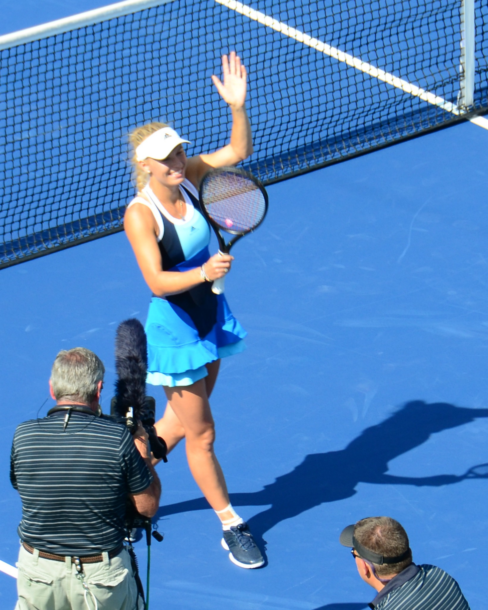 After Caroline Wozniacki's First Round Victory